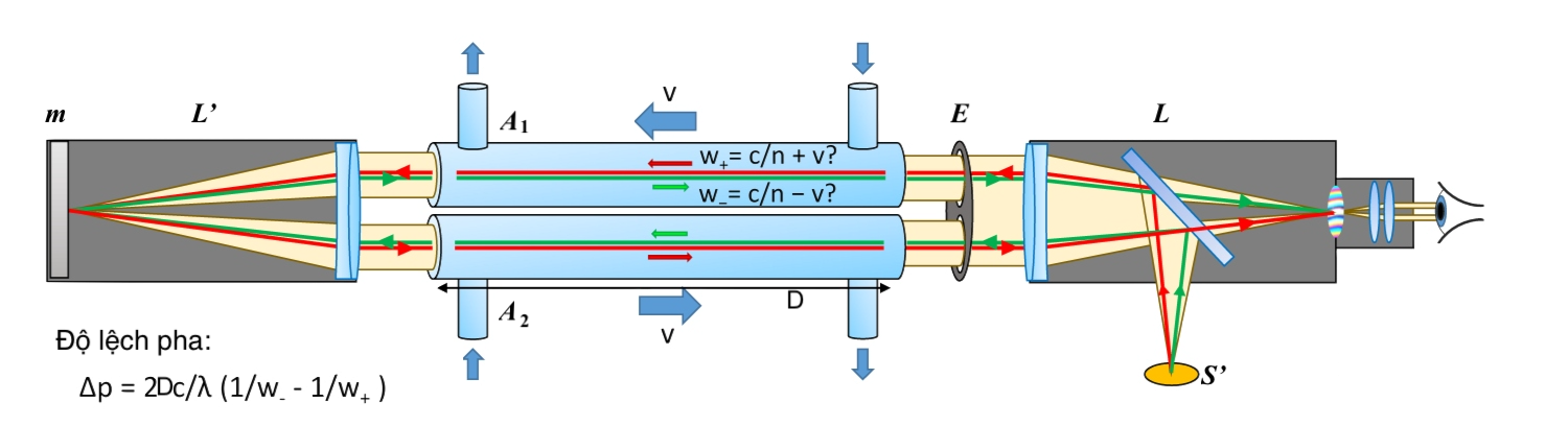 Translate from File:Experience Interfero Fizeau Ether.jpg